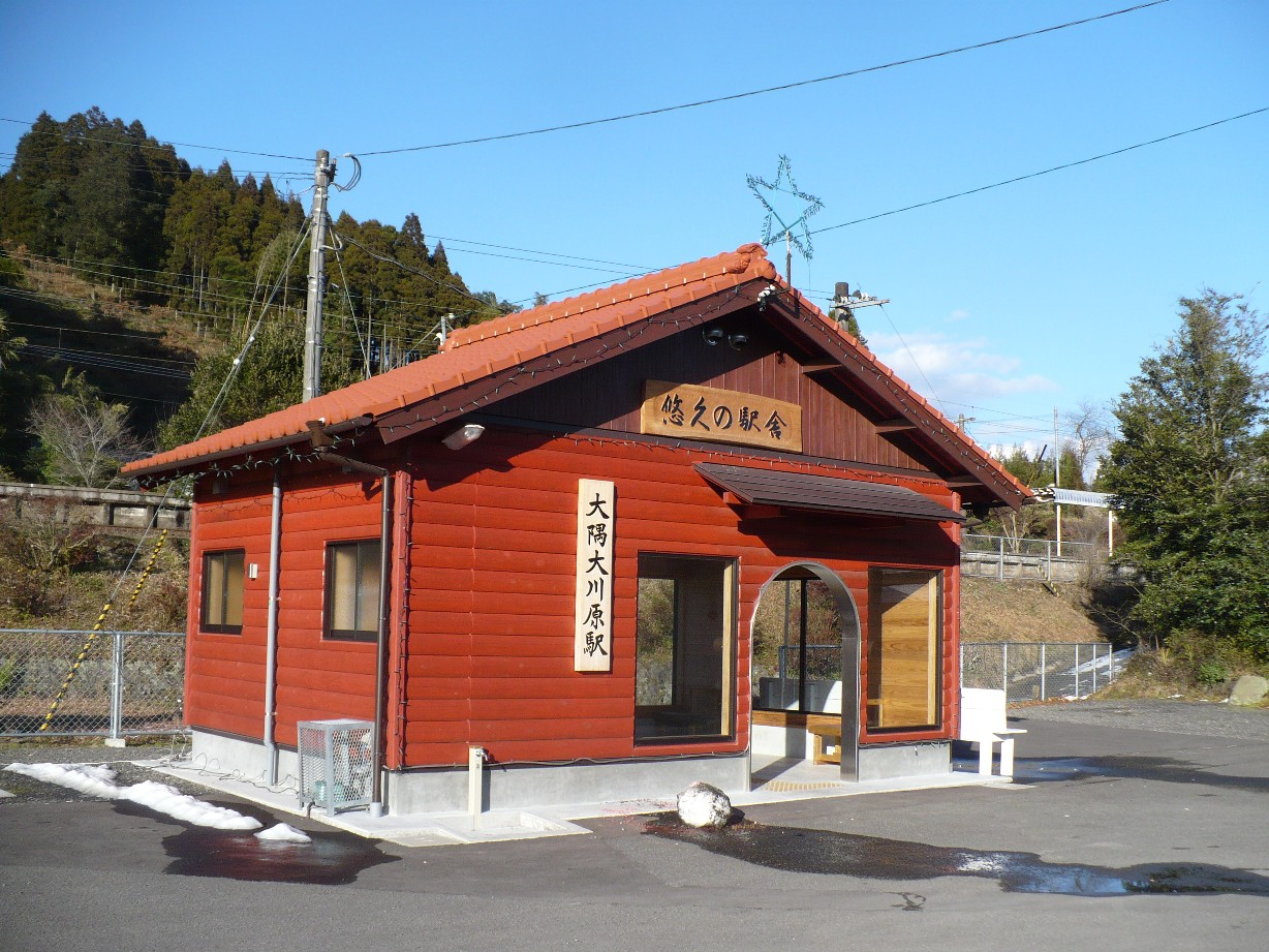 Main building of Osumi-Okawara station, Soo, Kagoshima, Japan.